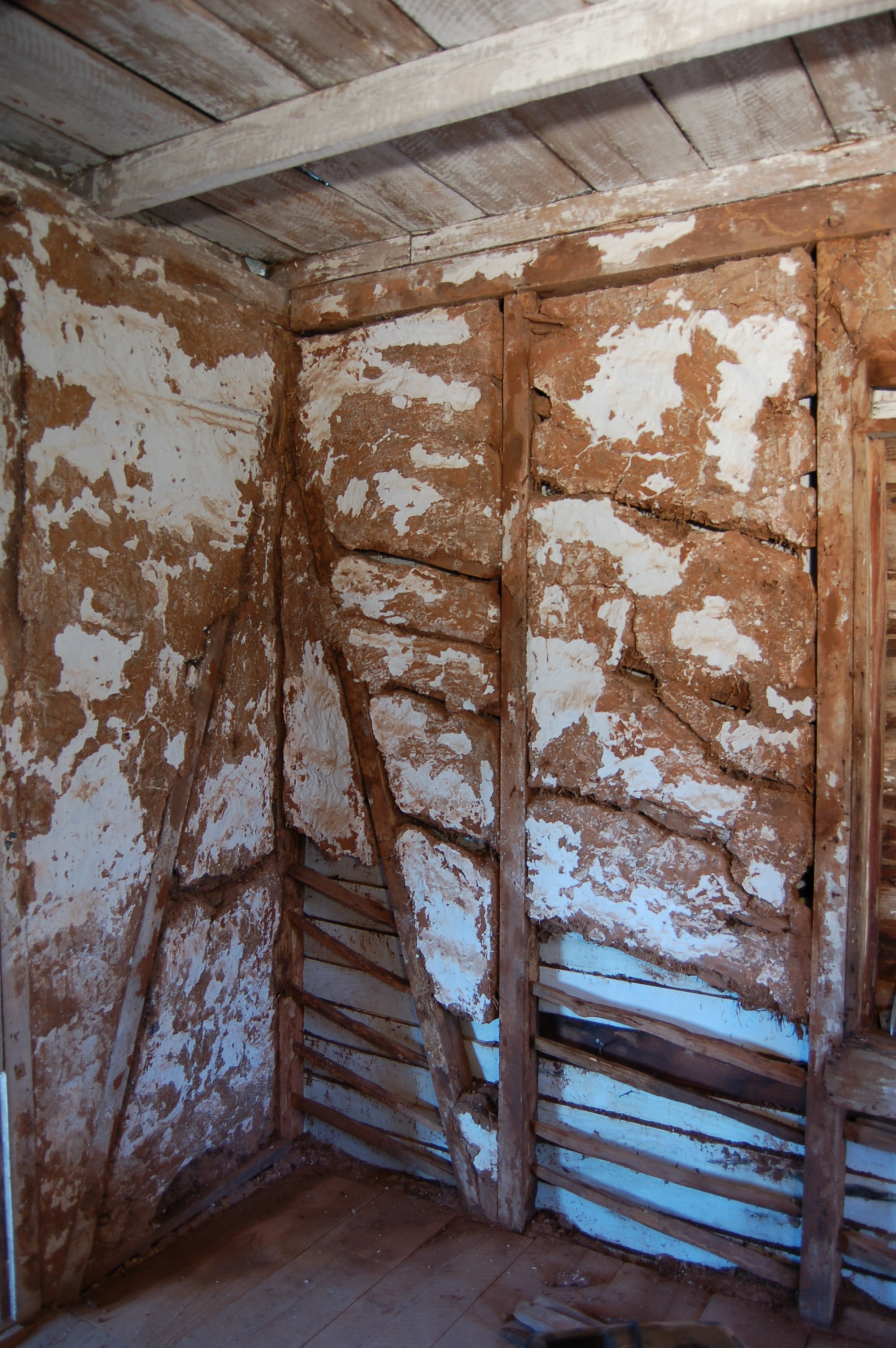 Bousillage walls (clay and grass infill) in a Creole tenant cabin at Oakland Plantation — seen during repair by National Park Service. The plantation is in Cane River Creole National Historical Park, part of the Cane River National Heritage Area,. It is located on Cane River Lake near Natchitoches, Natchitoches Parish, Louisiana.